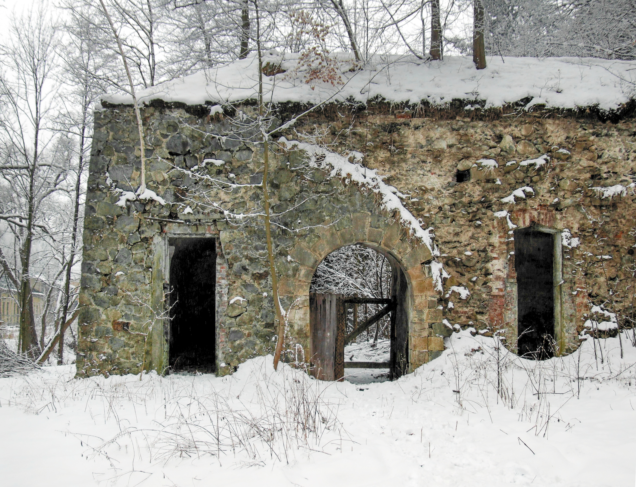 Mąkolno (Maifritzdorf), Lower Silesia - ruins of black podwer factory - dryer (suszarnia)